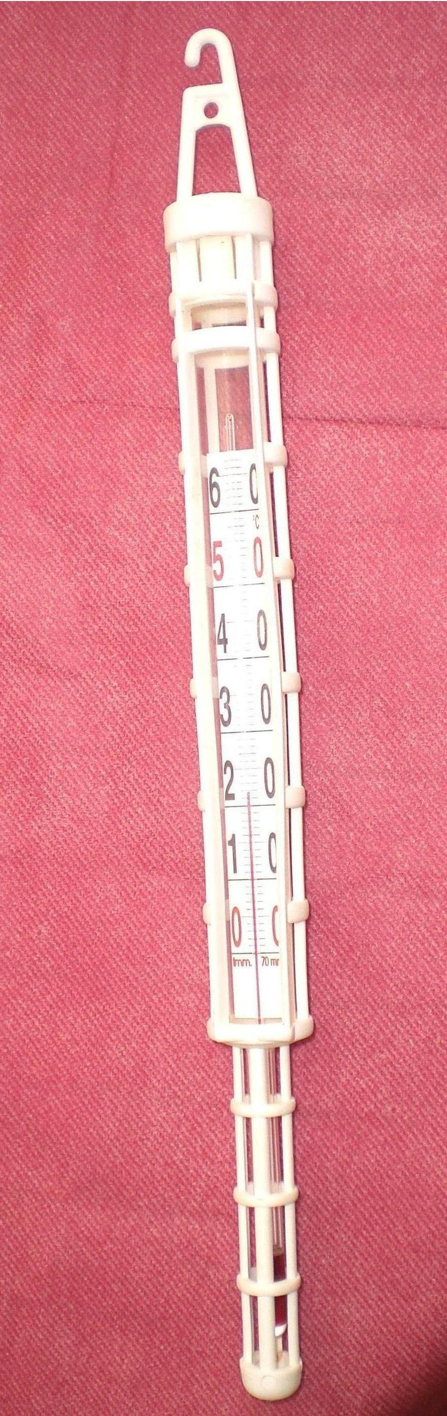 thermometre à chocolat